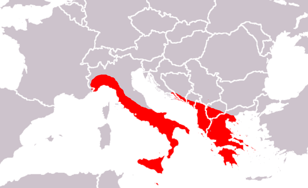 Distribution area of the freshwater crab Potamon fluviatile. Uses File:Europe blank map.png as the base map.